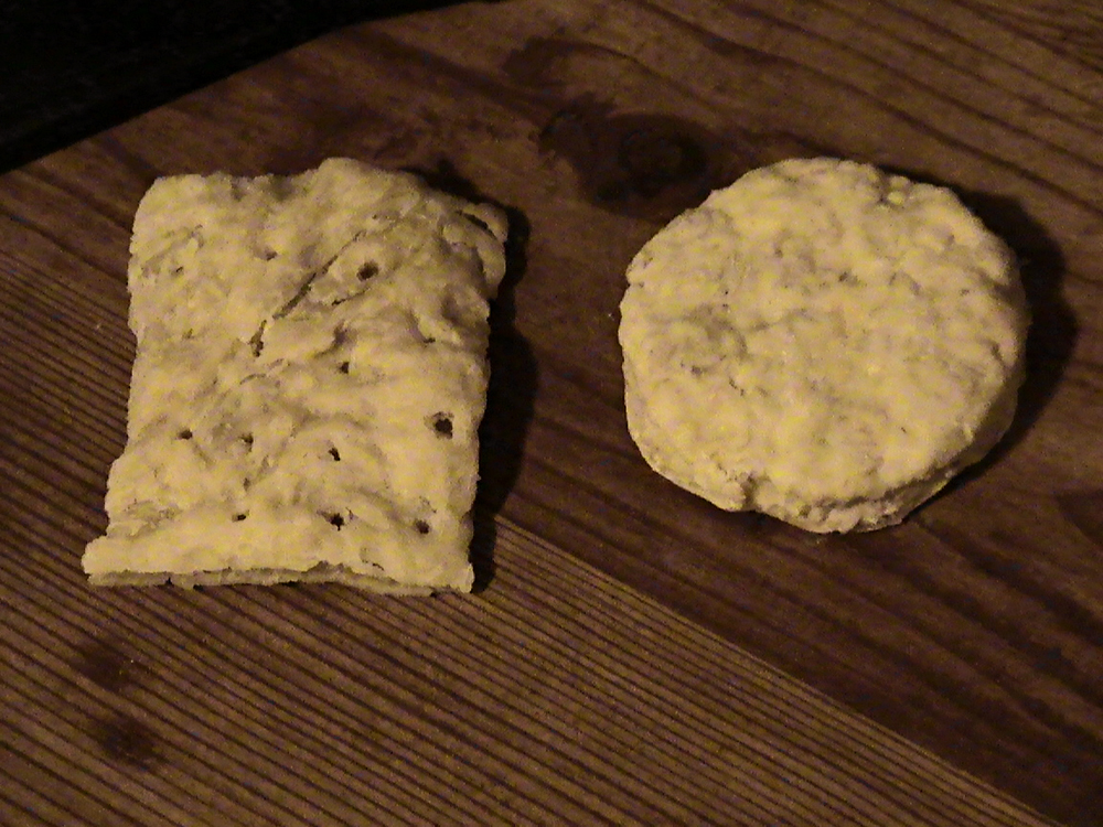 19th Century civil war hardtack, as reproduced faithfully by a civil war re-enactor. To the left, army hard tack. To the right, Navy hard tack. Both would never be seen just laying around. They would either be in a barrel, a haversack, or human hand.